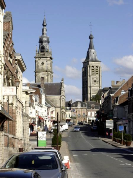 The city of Le Cateau-Cambrésis, with belfry (left) and church tower (right).